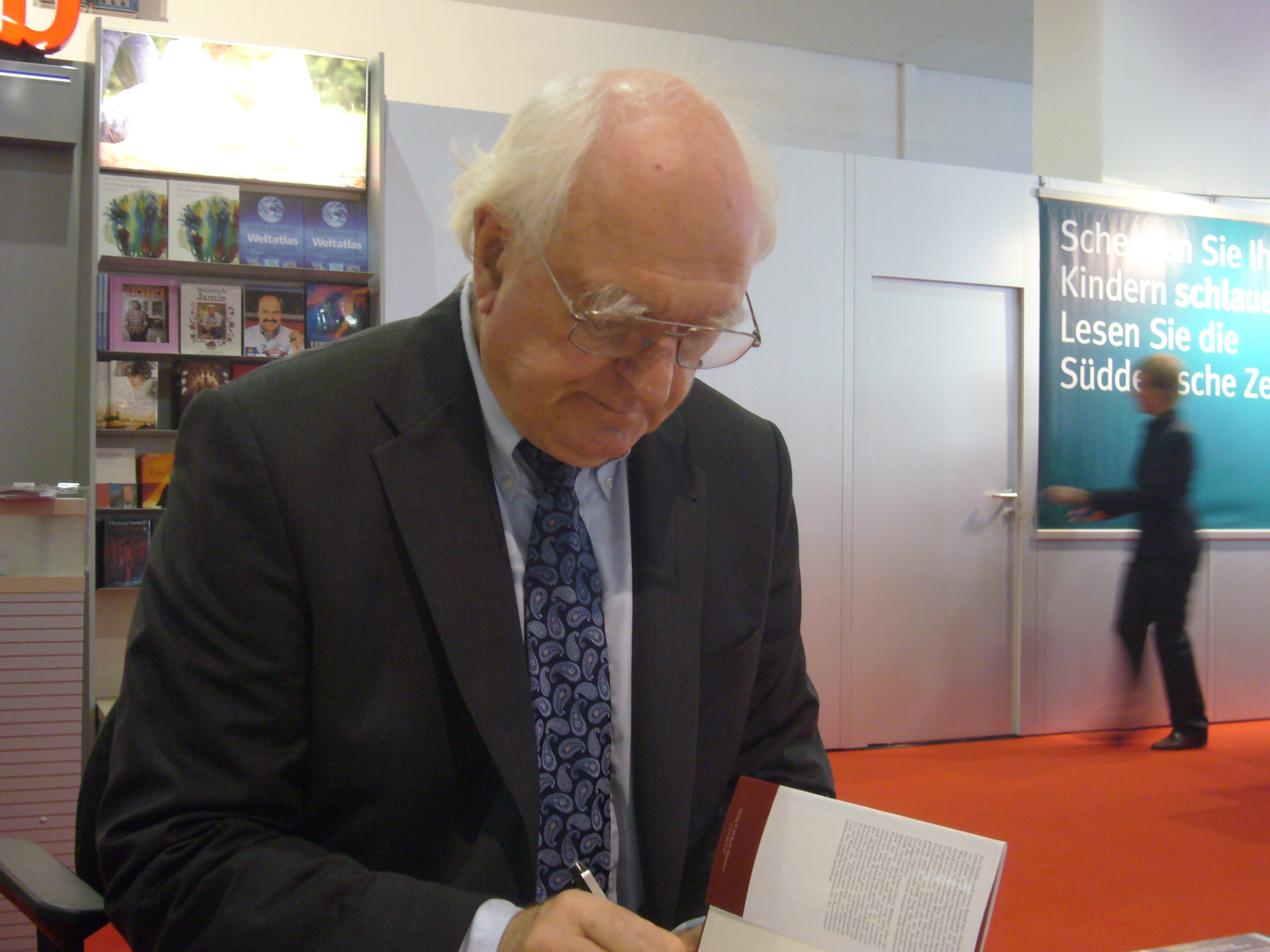 Prof. Dr. Hans-Ulrich Wehler, Emeritus Professor of History at the University of Bielefeld, autographing his German Social History 1700 - 1991 in five volumes.